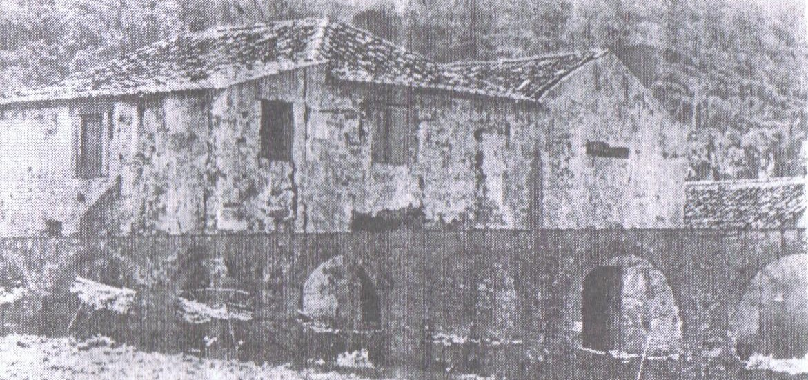 Nazaré (Portugal), Famalicao, Quinta de Sao Giao, picture of the agricultural buildings with aqueduct, hiding the Church of Sao Giao (7th century), about 1895